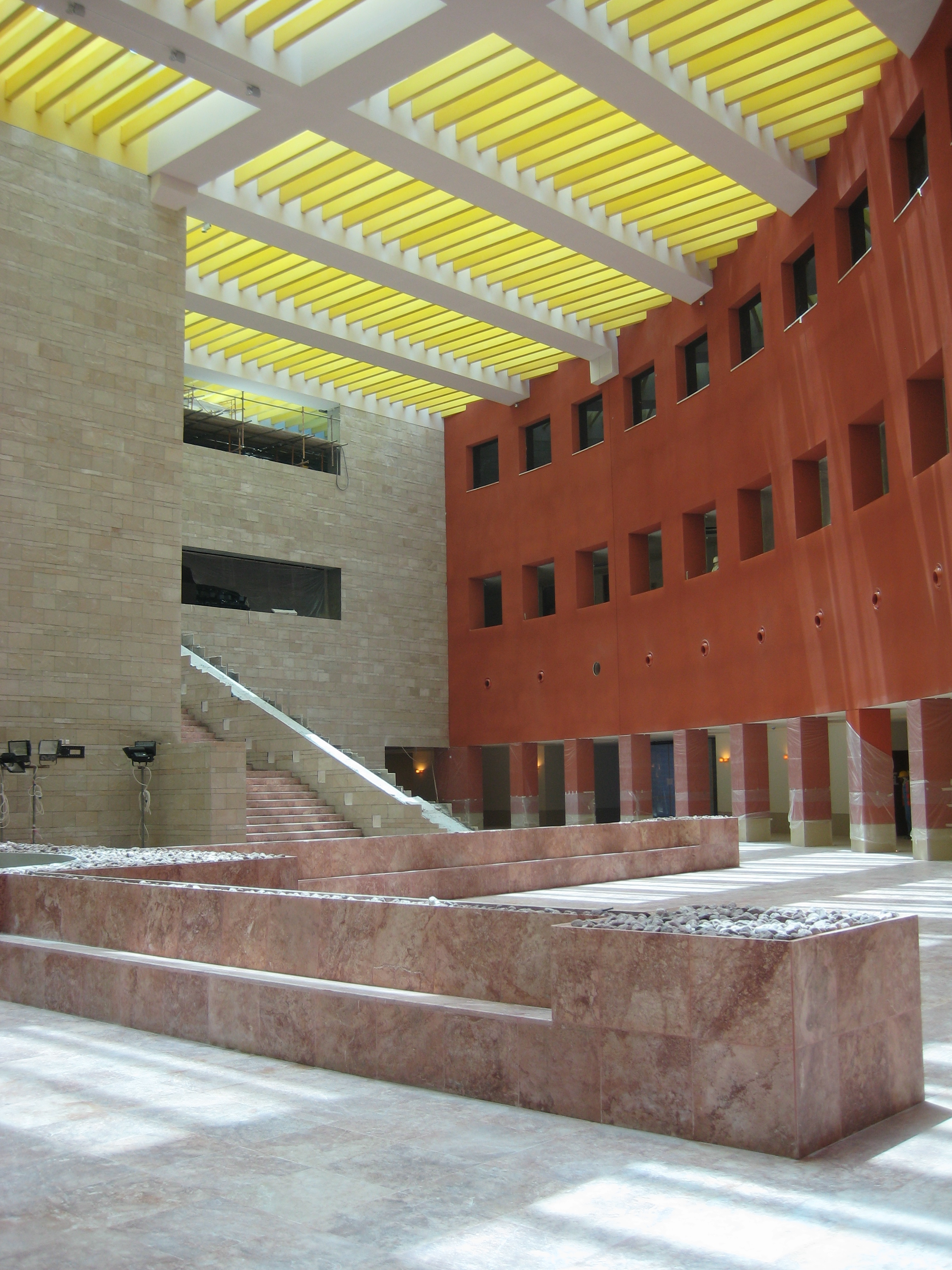 The atrium of Carnegie Mellon University in Qatar's new building, Education City, Doha